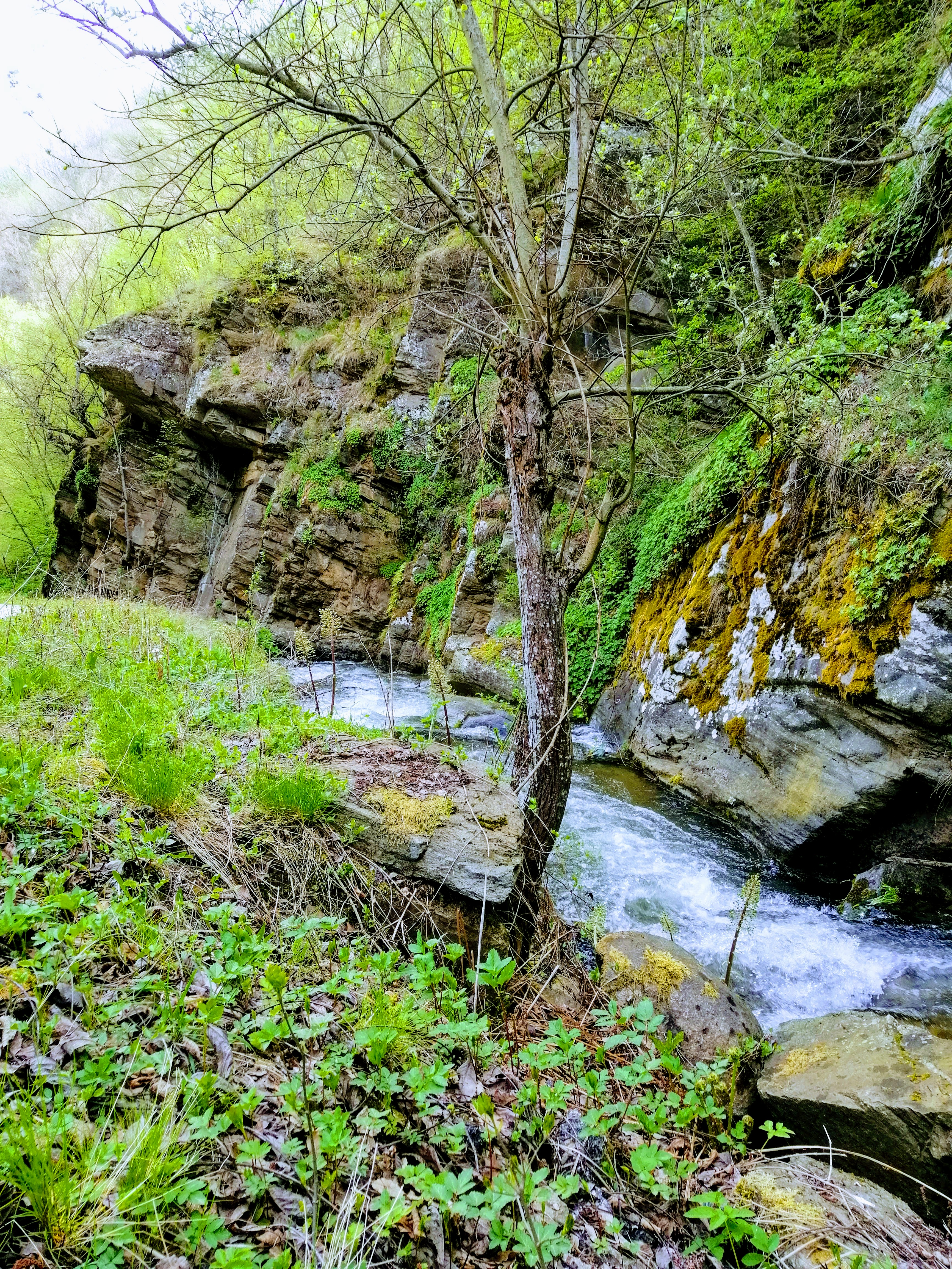 Stanečka Reka between villages Stanci and Duračka Reka